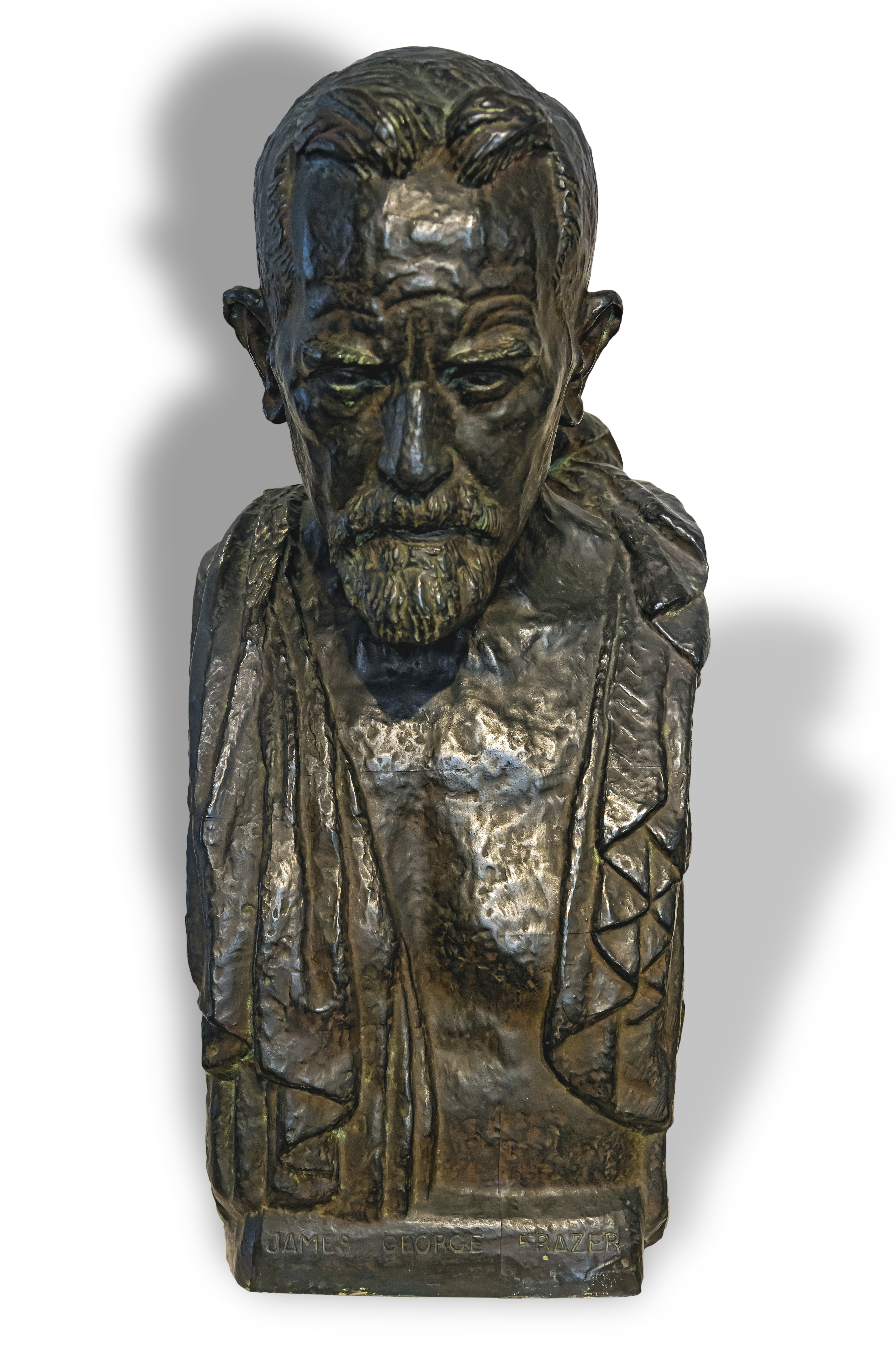 Depicted person: James George Frazer – Scottish social anthropologist